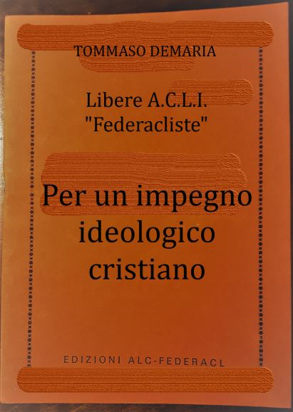 Libere Acli "federacliste" and Tommaso Demaria, For a Christian ideological commitment, Turin, ALC-FEDERACL, 1972.